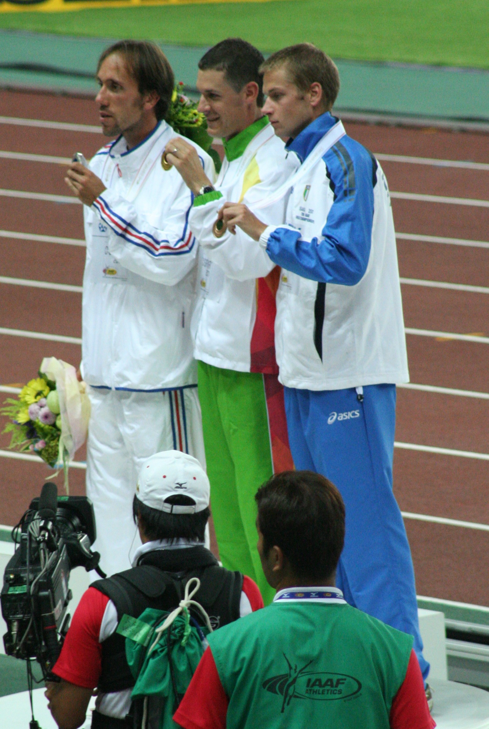 Victory ceremony for the men*s 50km race walk: Yohan Diniz Nathan Deakes Alex Schwazer